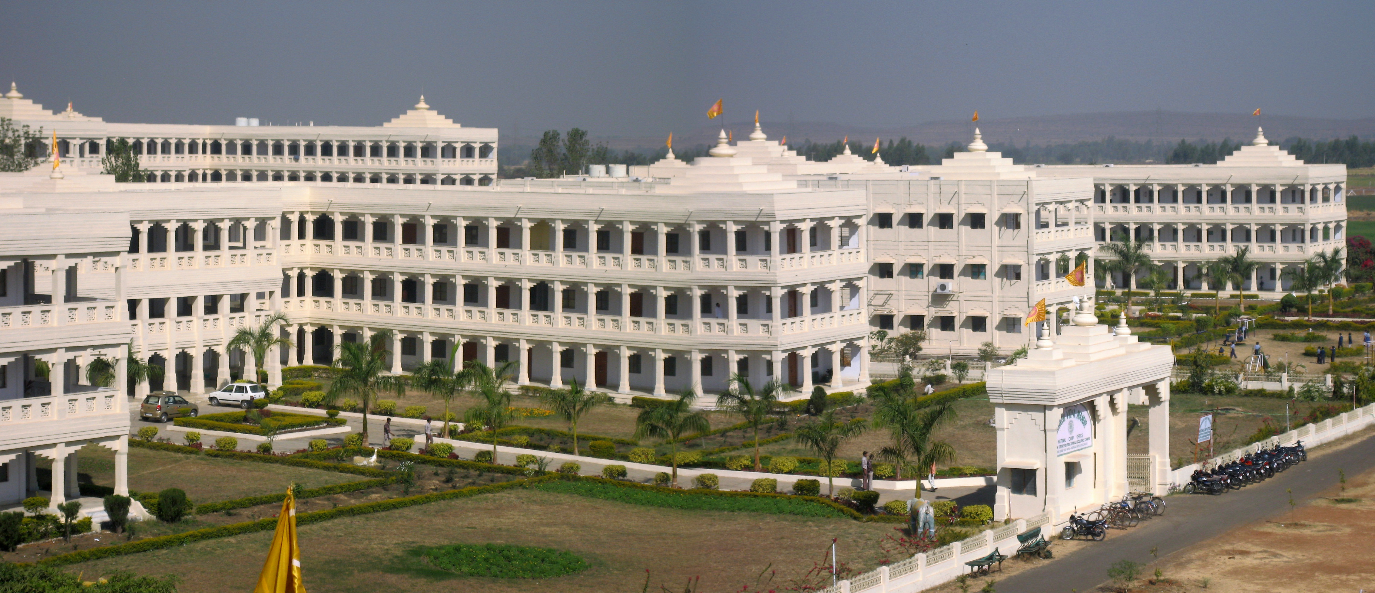 Maharishi Centre for Educational Excellence, Bhopal, Madhya Pradesh, India. The building is according to Maharishi Sthapatya Veda principles of architecture with an Eastern for entrance .